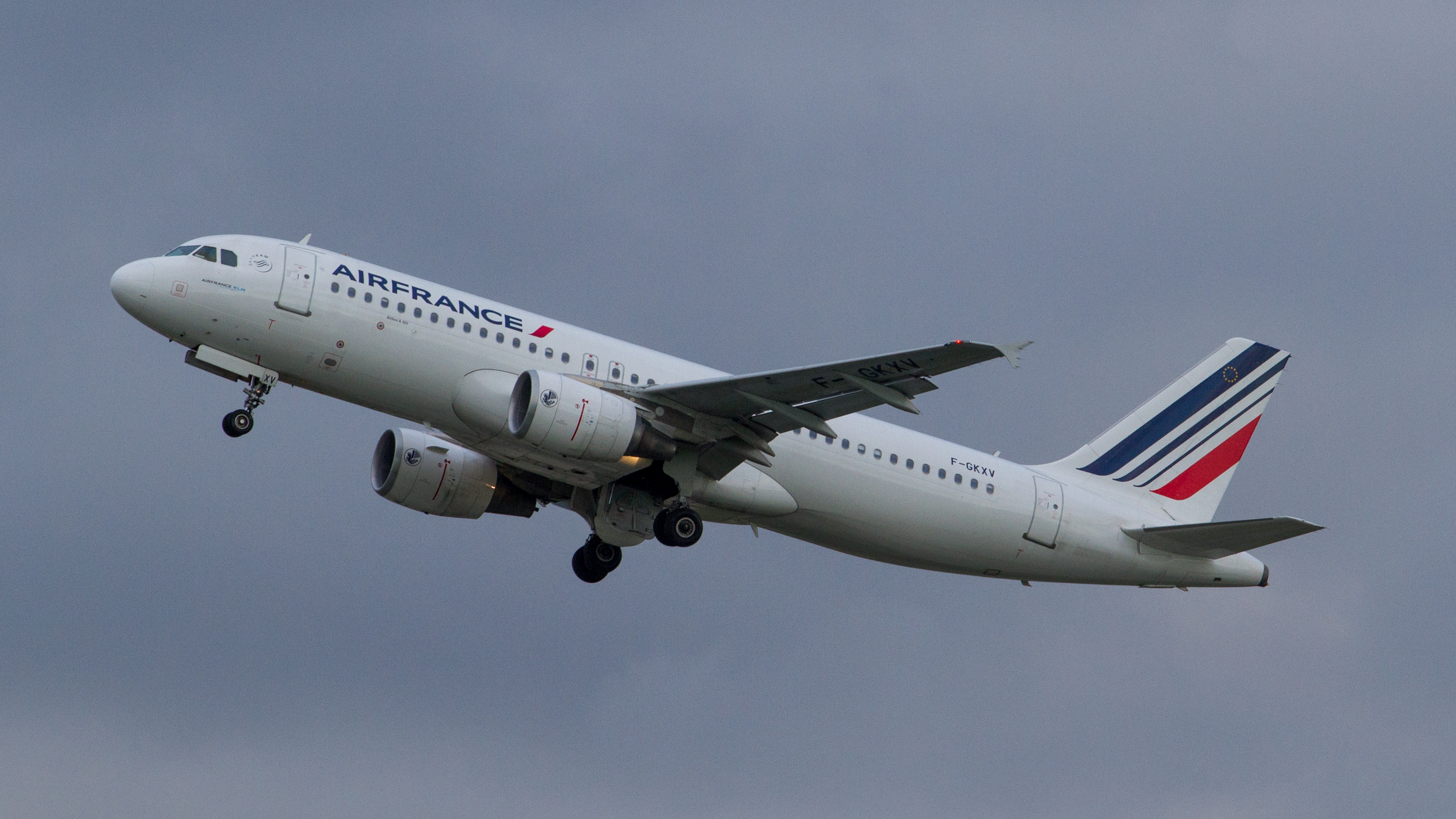 An evening at Manchester 01.06.13.